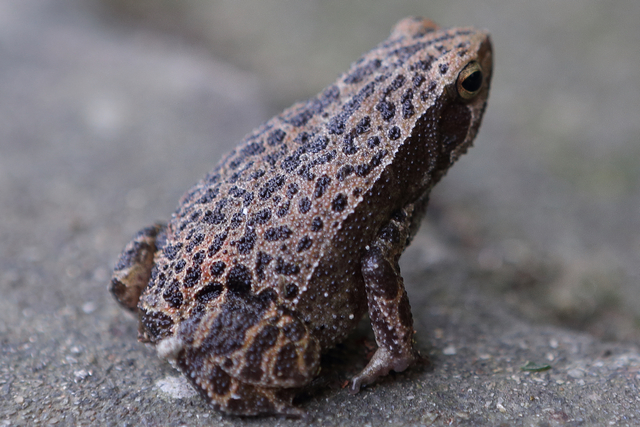 Kalophrynus pleurostigma